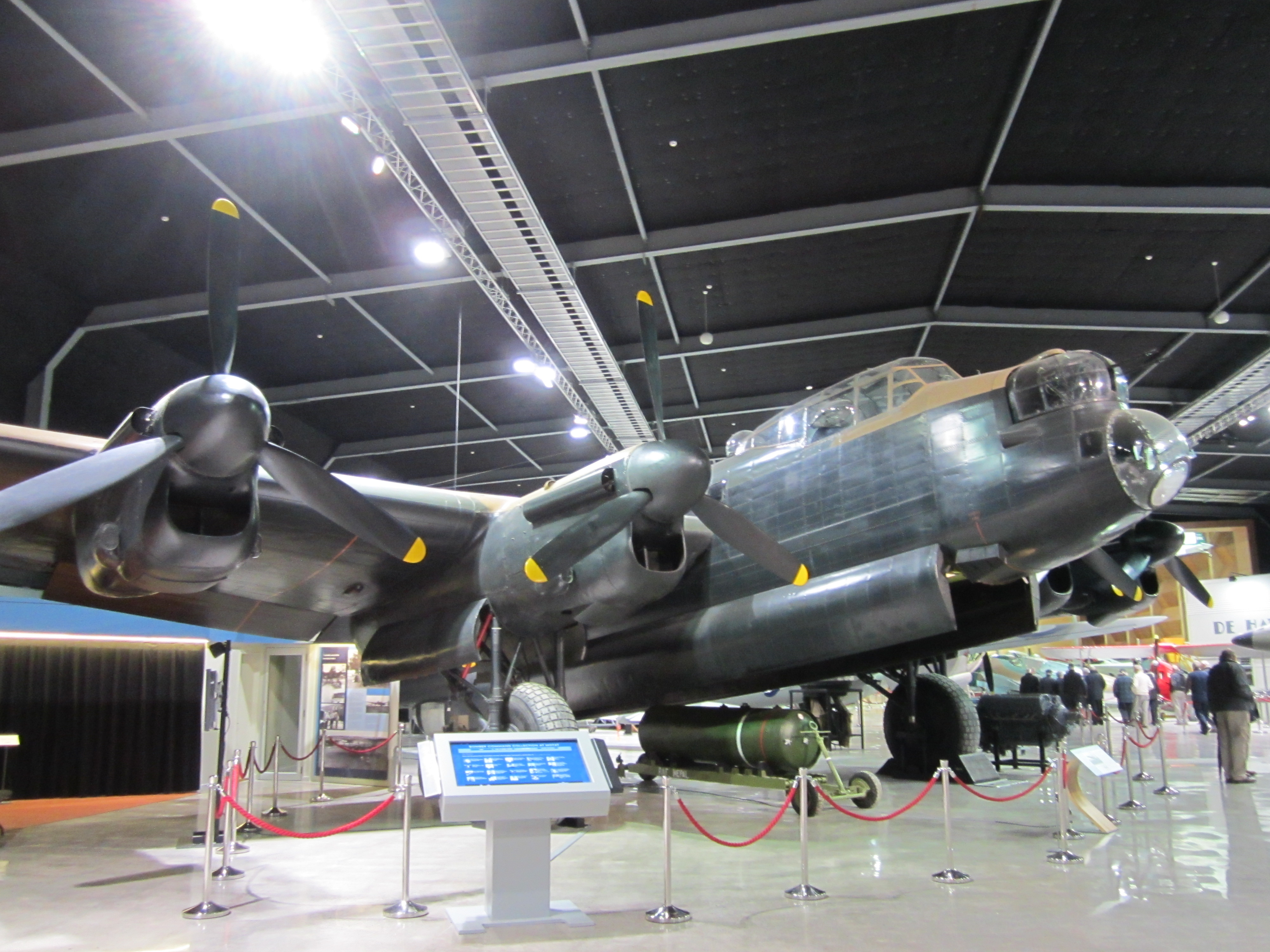 Lancaster bomber NX665 on display at MOTAT in Auckland during June 2012